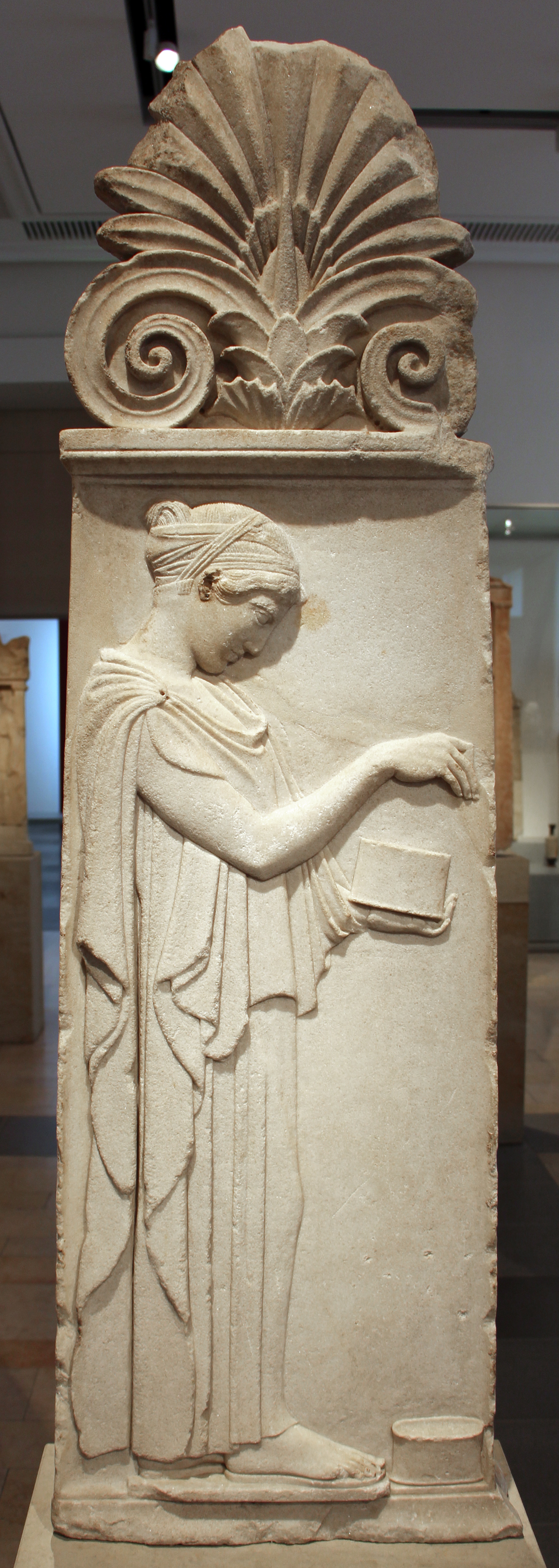 Ancient Greek sculptures in the Antikensammlung Berlin